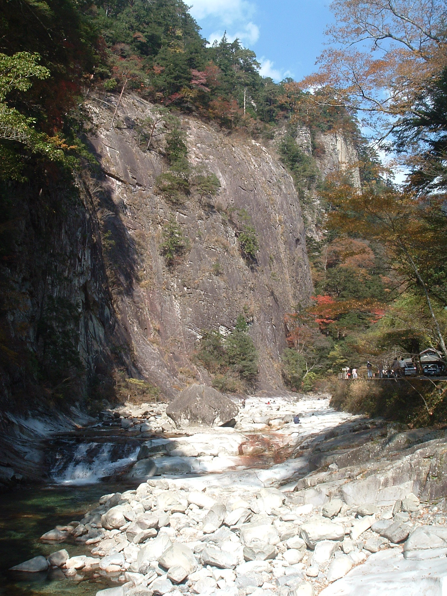 Omogokeikoku